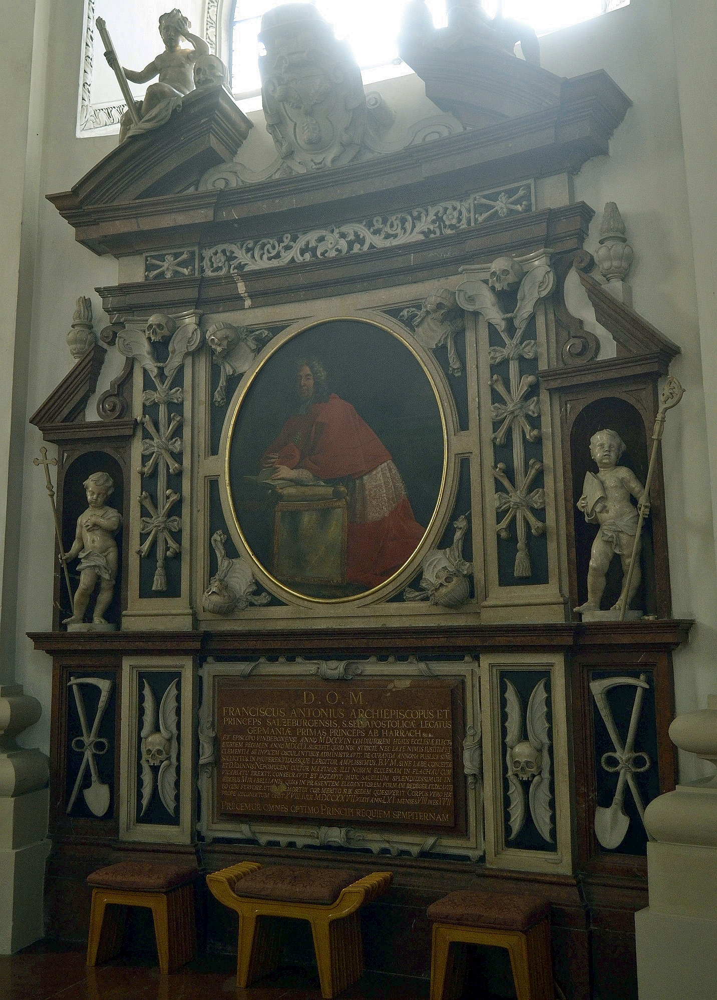 Salzburg Cathedral - cenotaph Archbishop Franz Anton von Harrach